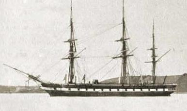 Prussian Corvette SMS Arcona